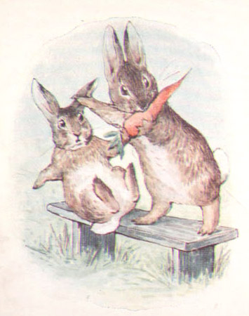 Illustration of a Fierce Bad Rabbit taking a carrot from the good Rabbit, from The Story of a Fierce Bad Rabbit